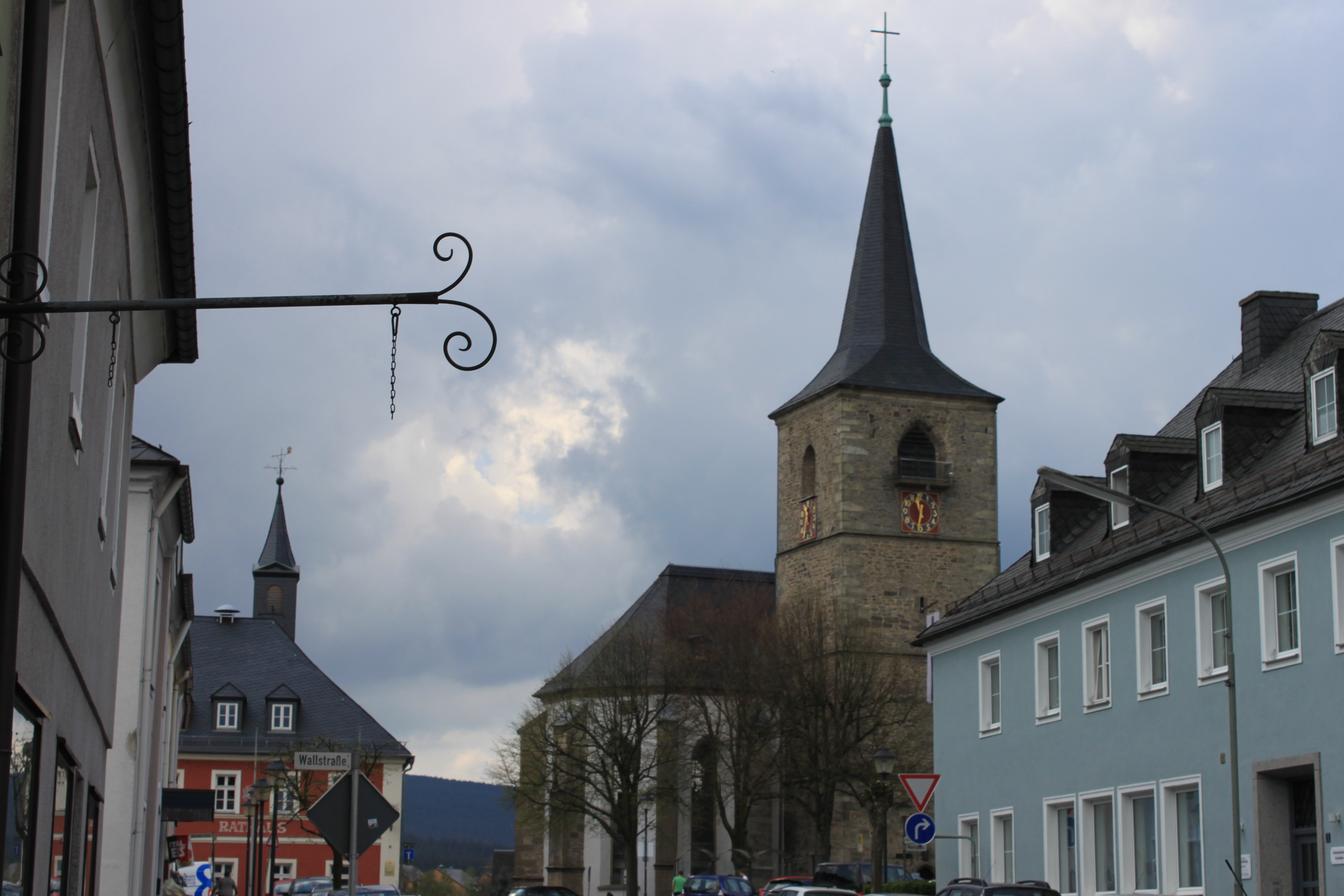 Weißenstadt (during a thunderstorm)